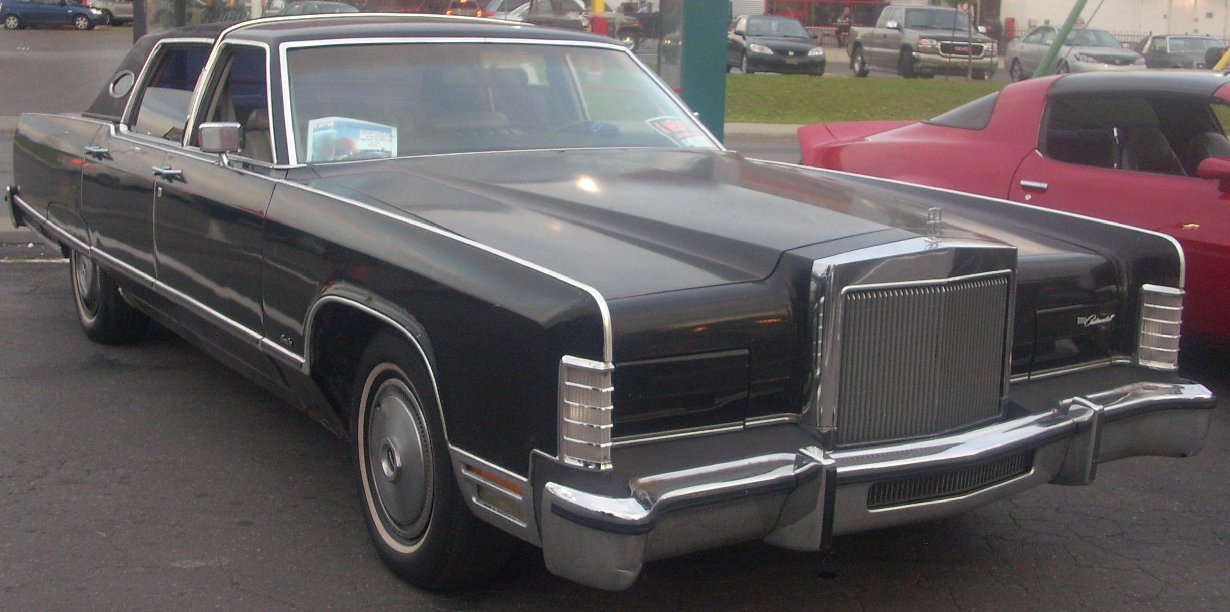 1977 Lincoln Continental Town Car photographed in Montreal, Quebec, Canada at Gibeau Orange Julep.